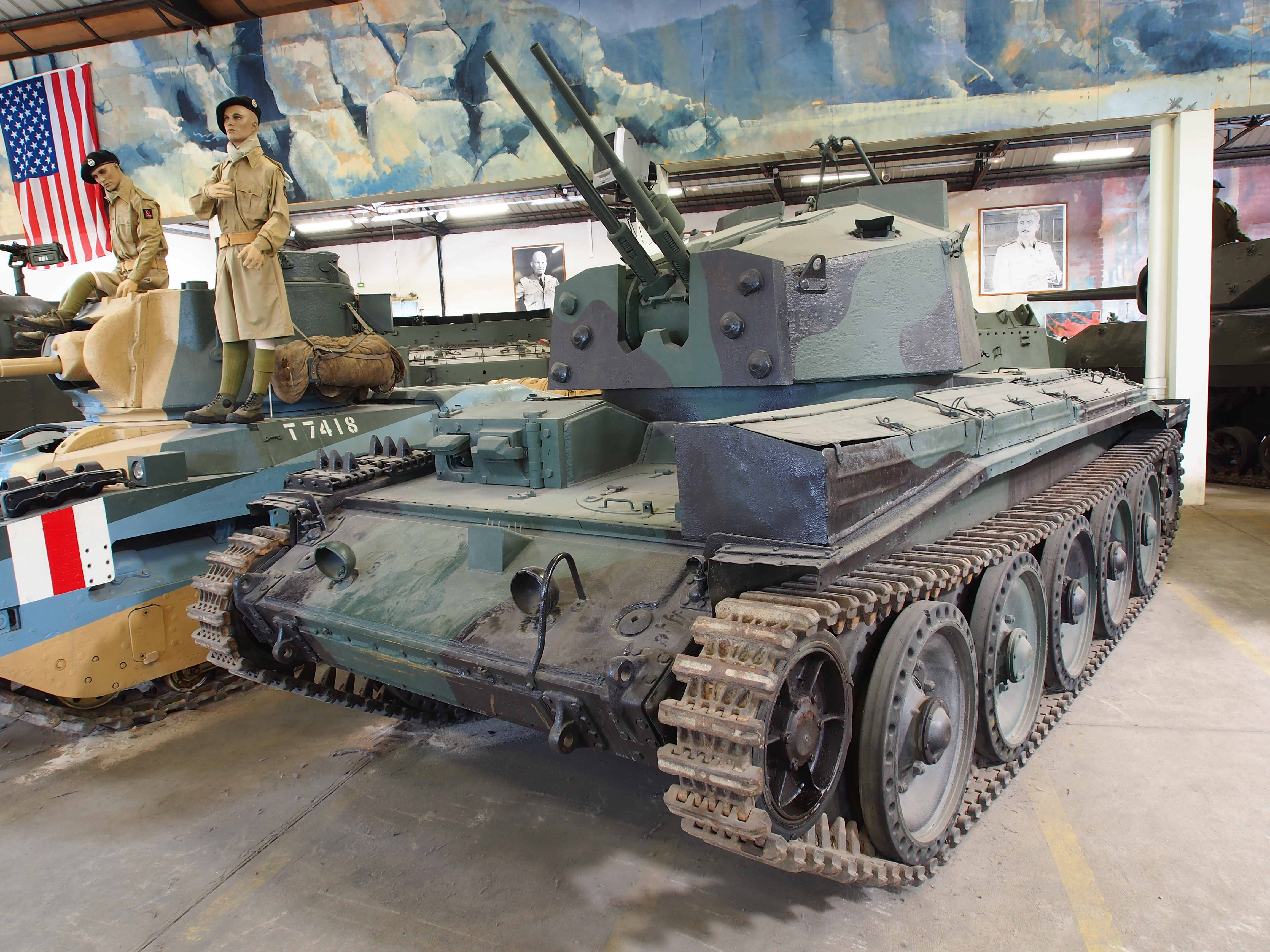 Photographed in the Musée des Blindés, France.